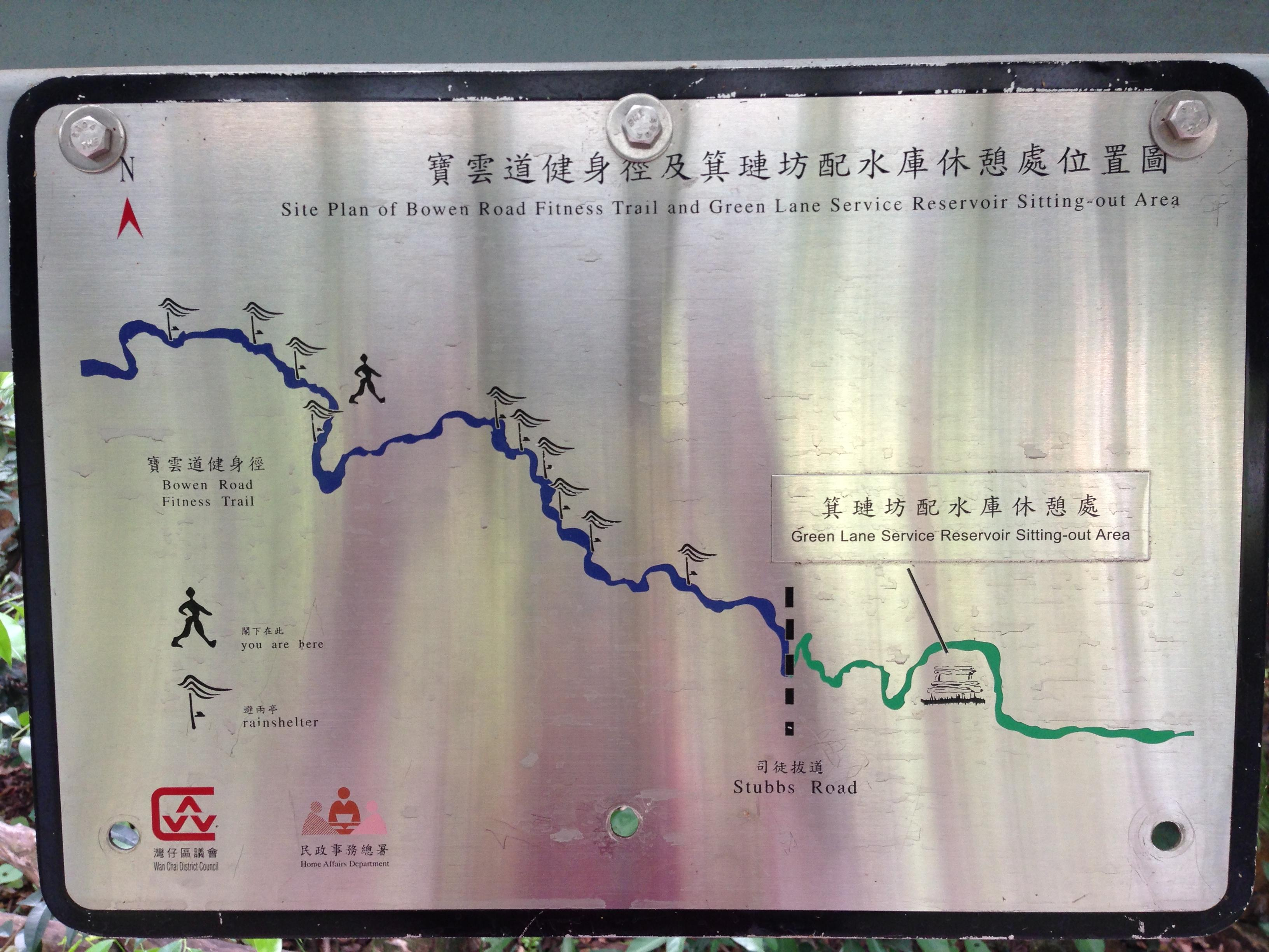 Bowen Road Fitness Trail Map